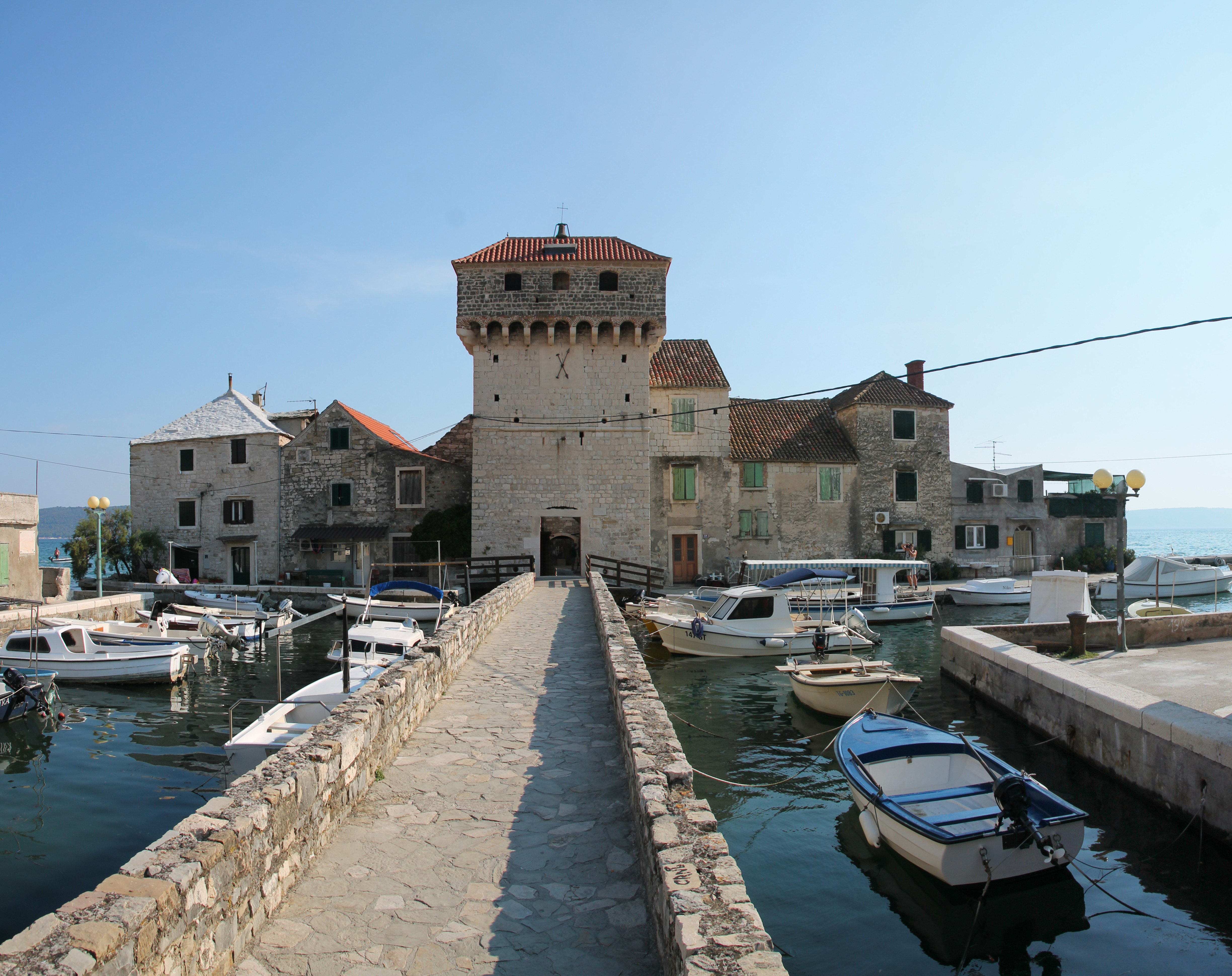 Kaštilac, Kaštel Gomilica, Kaštela